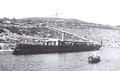 Austro-Hungarian gunboat (SMS Meteor) - copyright expired